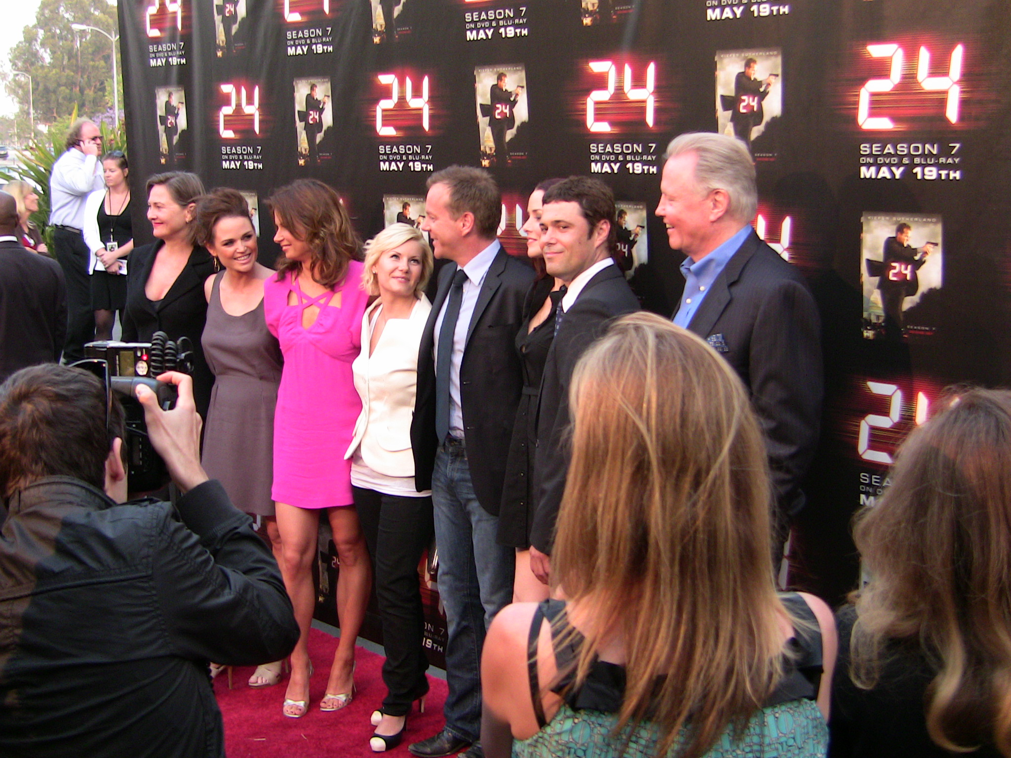 The cast of TV series 24 at series' season 7 finale screening at Wadsworth Theatre, Los Angeles, California. From left: Cherry Jones, Sprague Grayden, Mary Lynn Rajskub, Elisha Cuthbert, Kiefer Sutherland, Annie Wersching, Carlos Bernard and Jon Voight